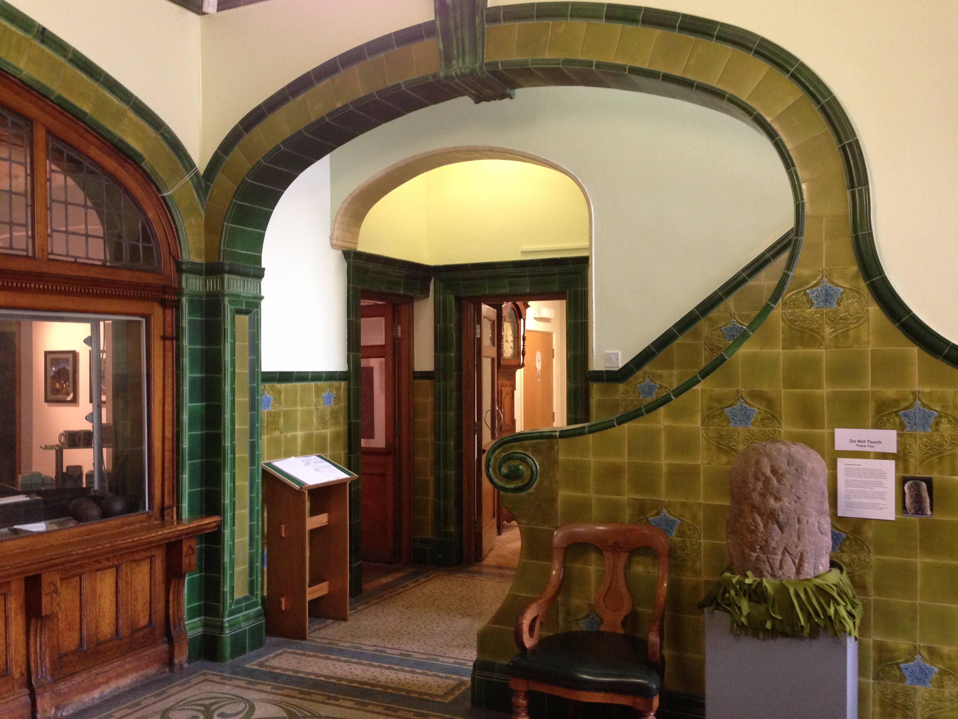 Flamboyant Art Nouveau building with a wonderful tiled entrance hall and many original 1904 furnishings